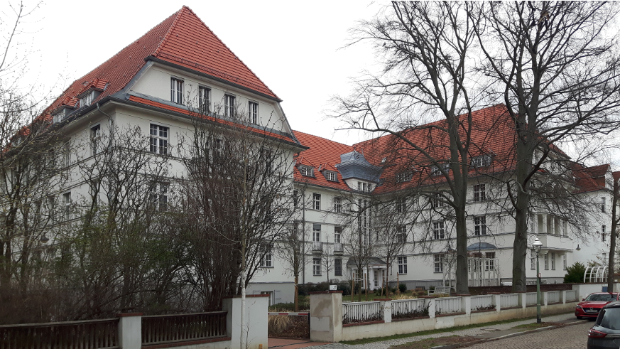 former Burckhardthaus, now part of the Free University Berlin campus